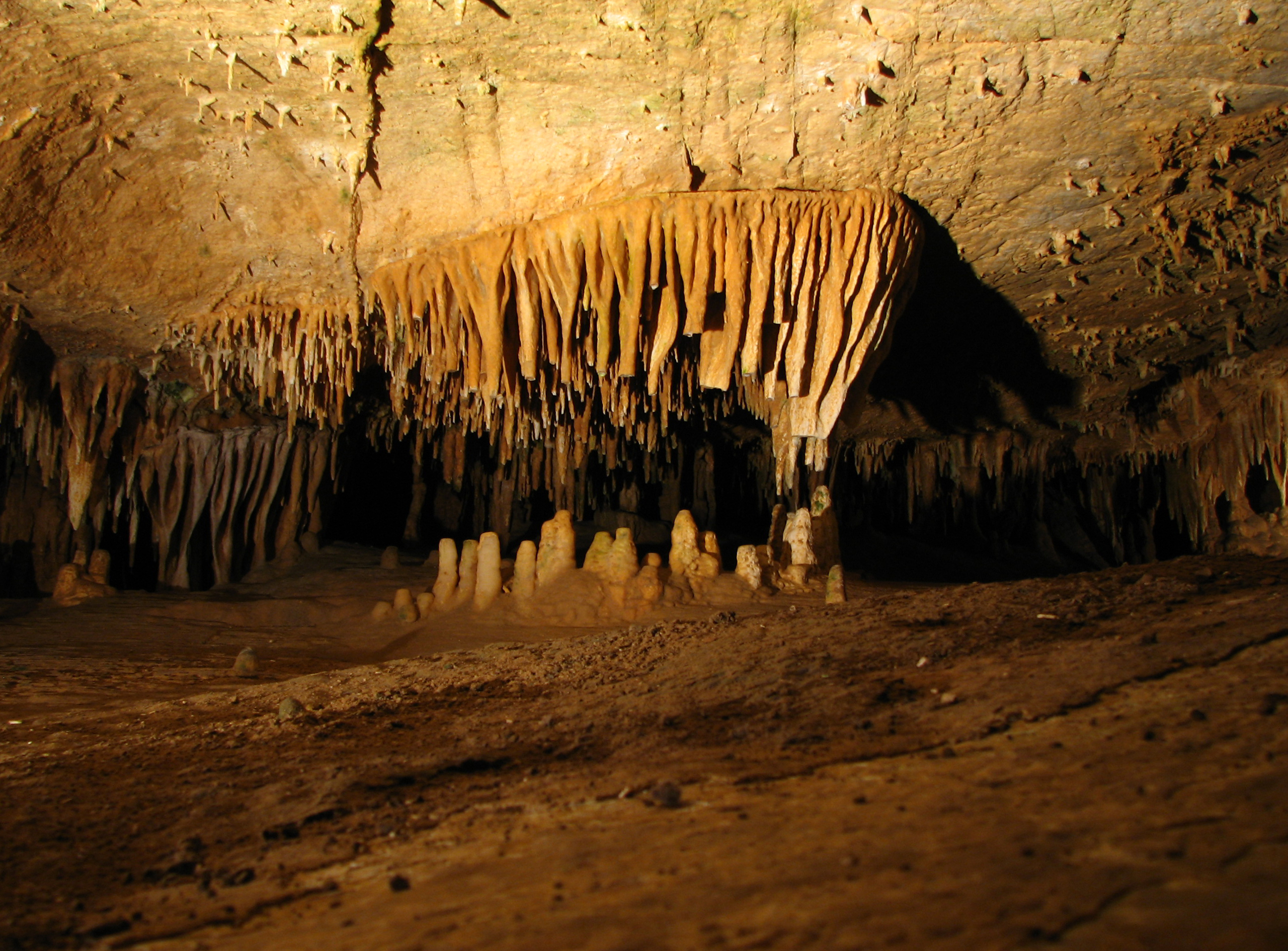 Luray Caverns